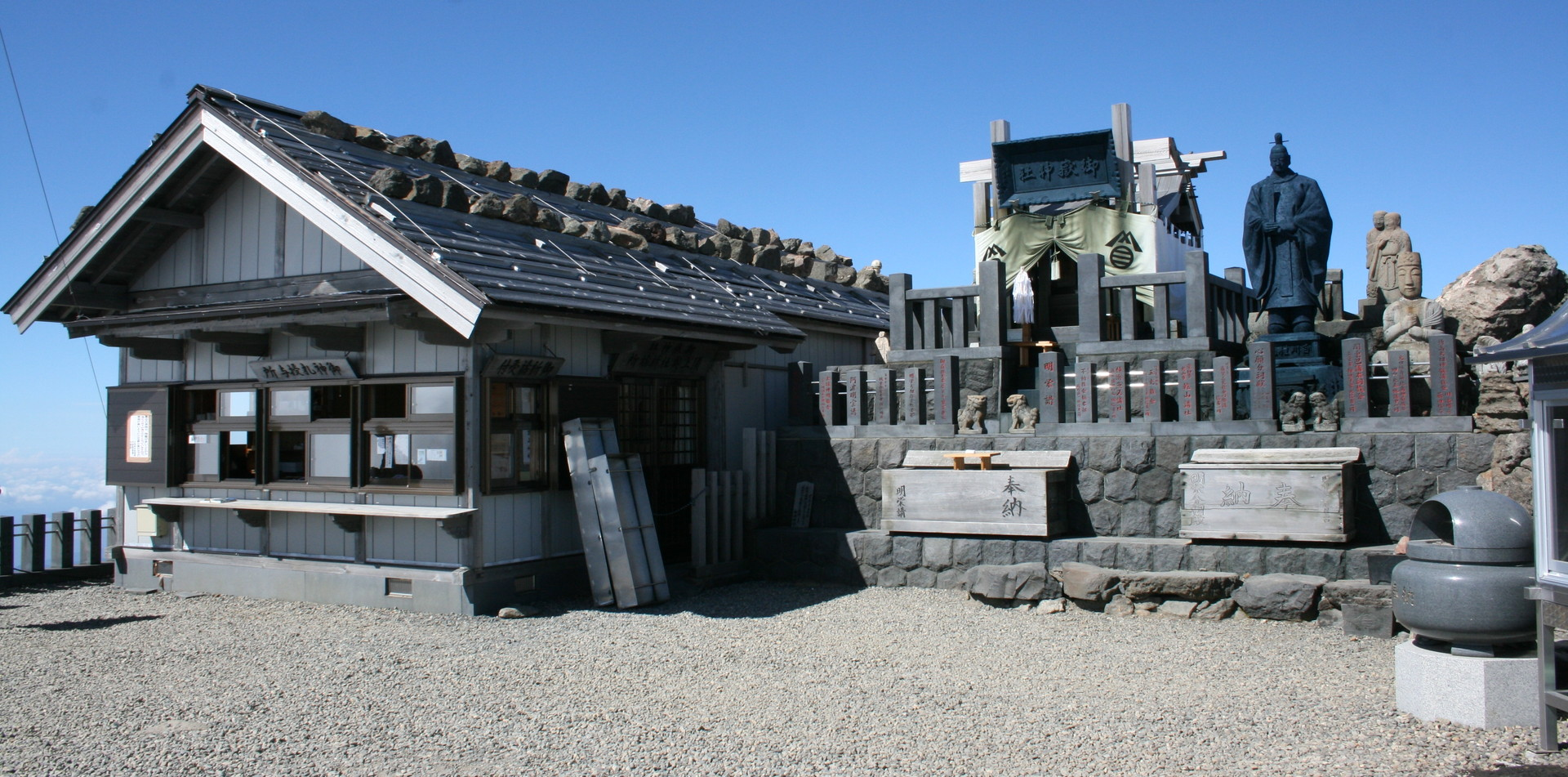 Mount Ontake Shinto shrines on the peak of Mount Ontake, Japan.